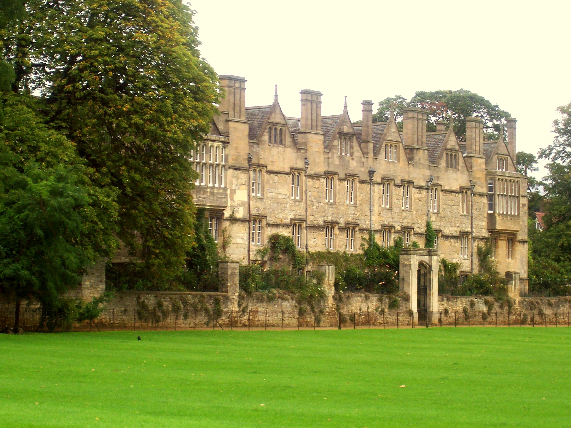 Merton college of Oxford university in Oxford, Oxfordshire, England.